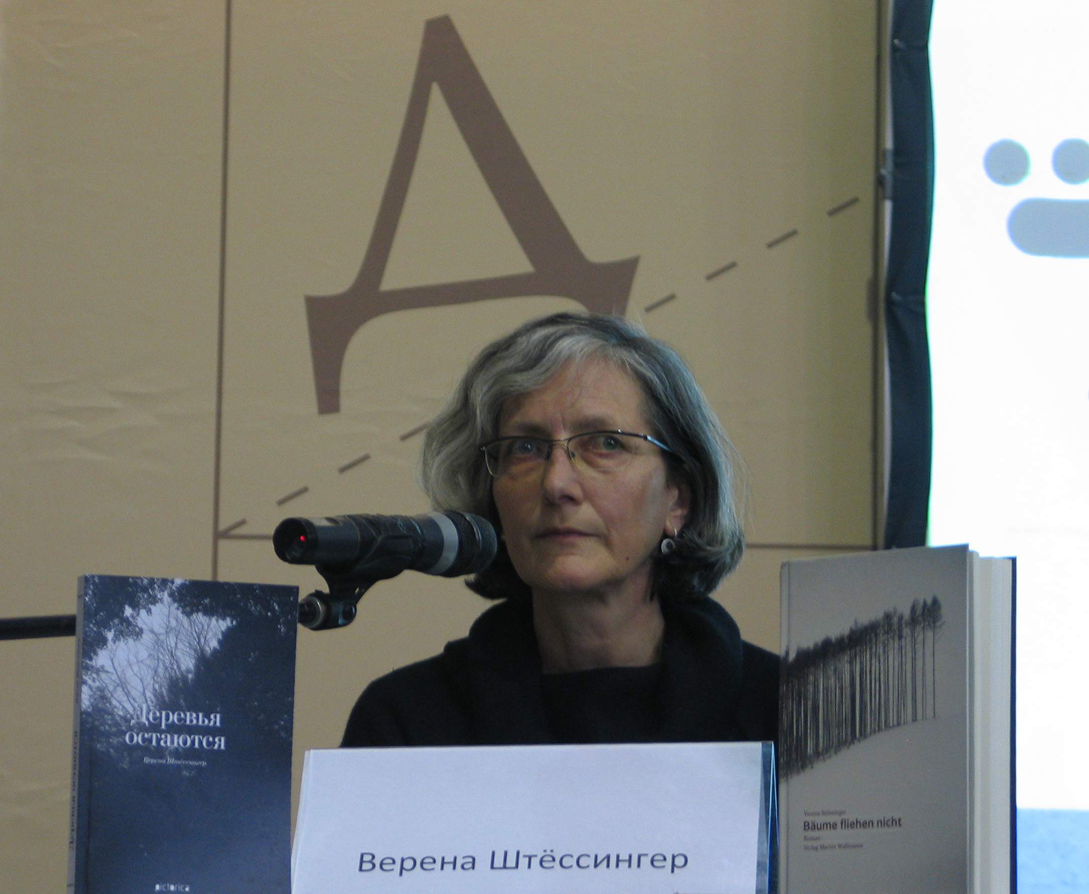 Swiss writer Verena Stössinger (b. 1951) presents her novel "Bäume fliehen nicht" at Krasnoyarsk Book Fair